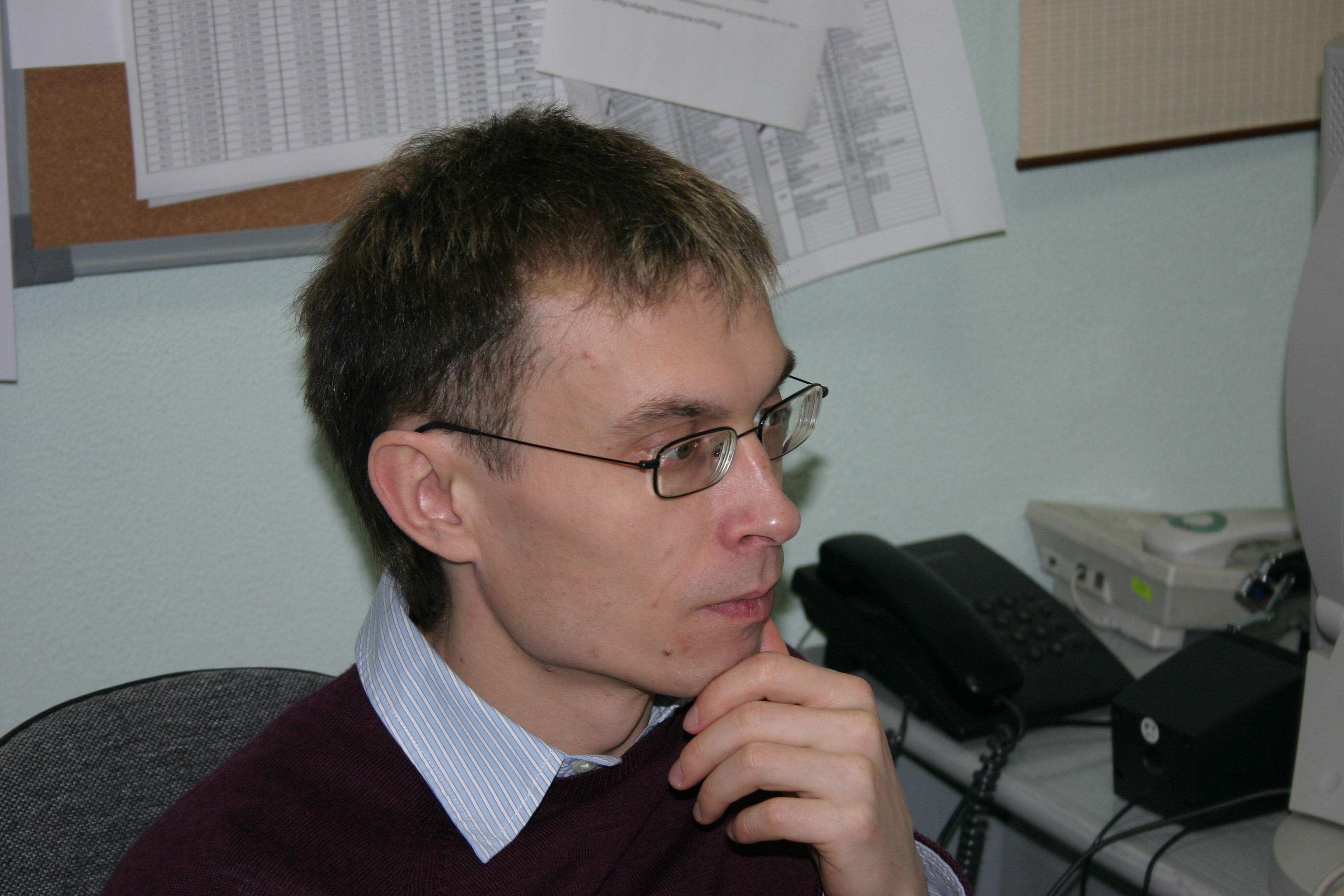 a photo of Vladislav Biryukov Владислав Бирюков, editor-in-chief of Computerra Weekly (2008)